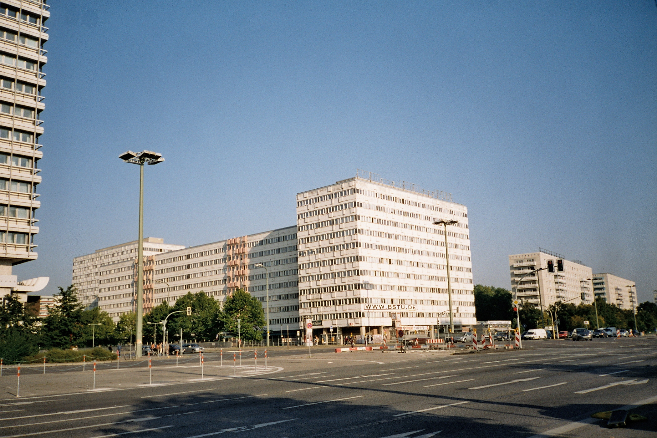 Description: View on the former Berlin branch of Statistisches Bundesamt on Alexanderplatz in Berlin. Source: self-made. I release it into the public domain.